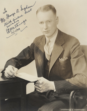 former congressman Ezekiel Candler Gathings of Arkansas.